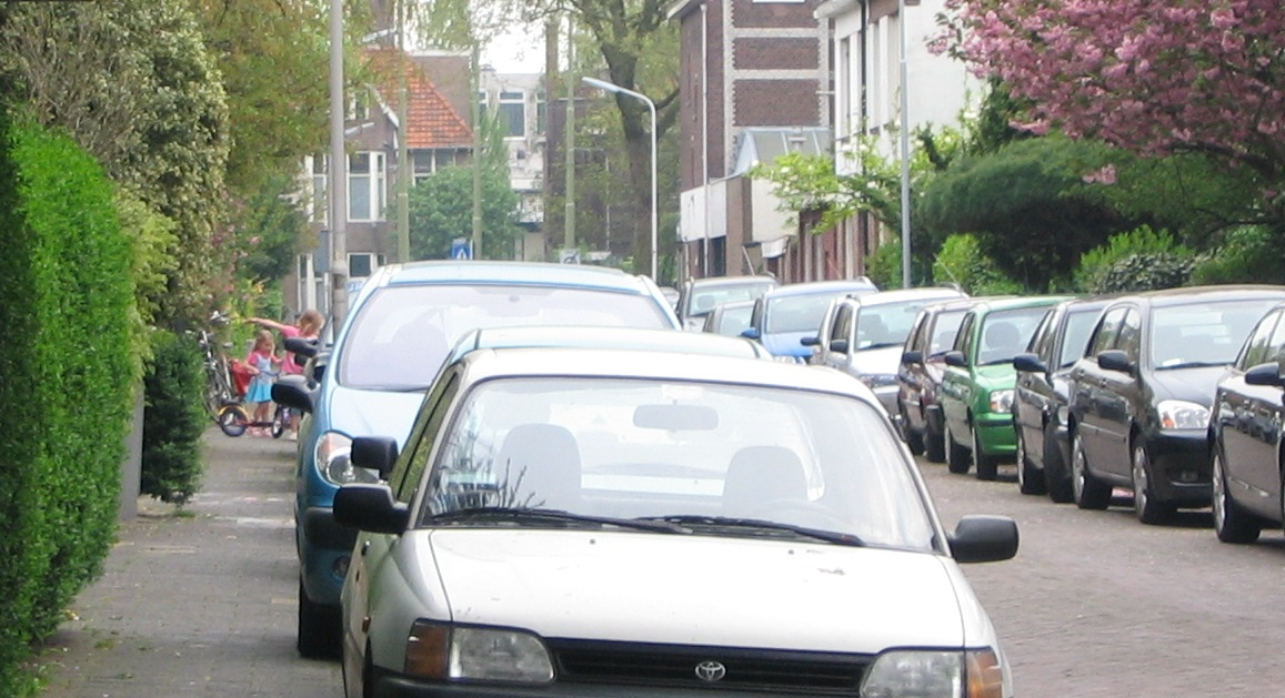 street design